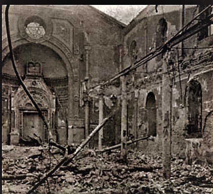 Grand Spanish Temple, "Cahal Grande" synagogue, located on 12 Negru Vodă Street, Bucharest, January 1941